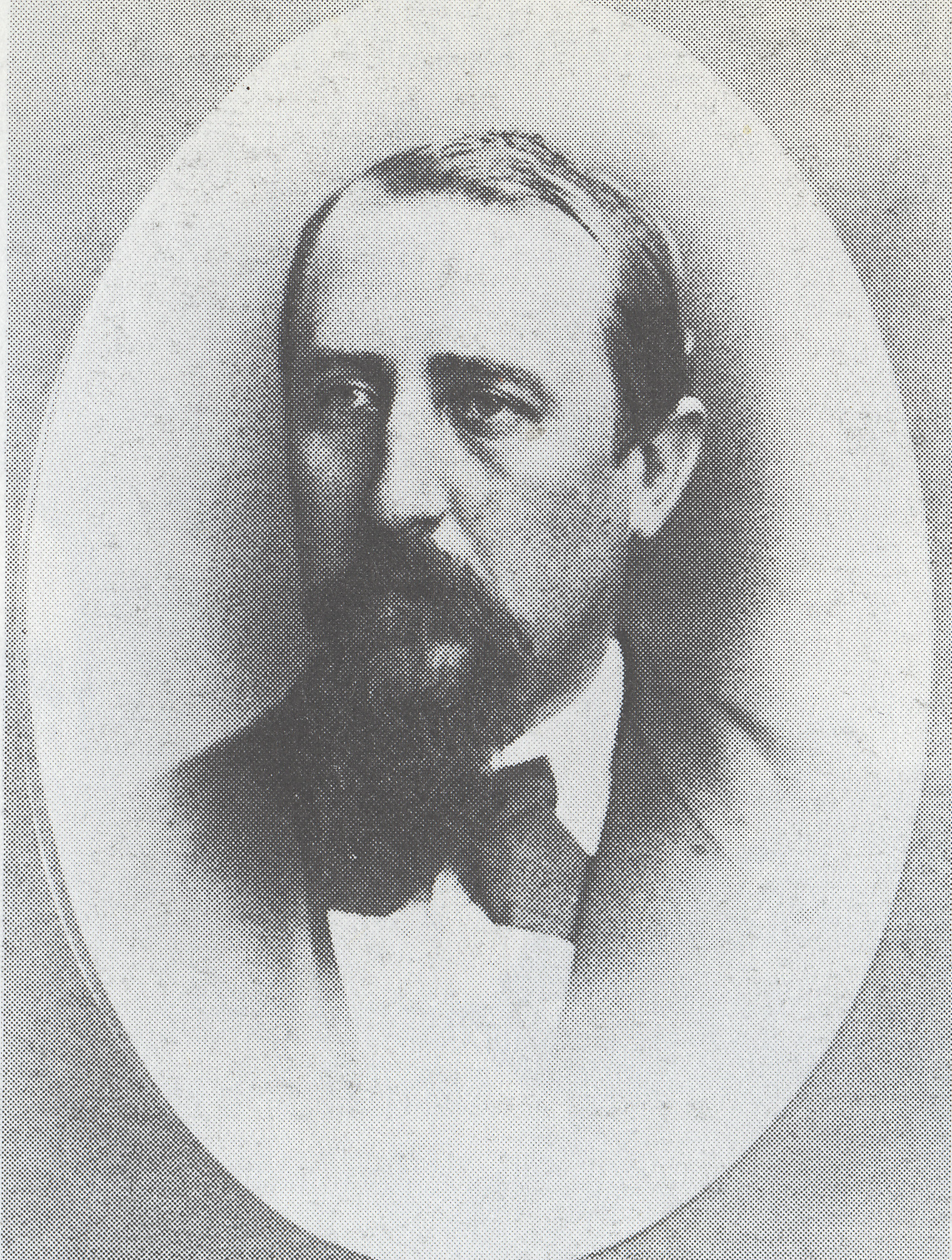 Leo Mechelin